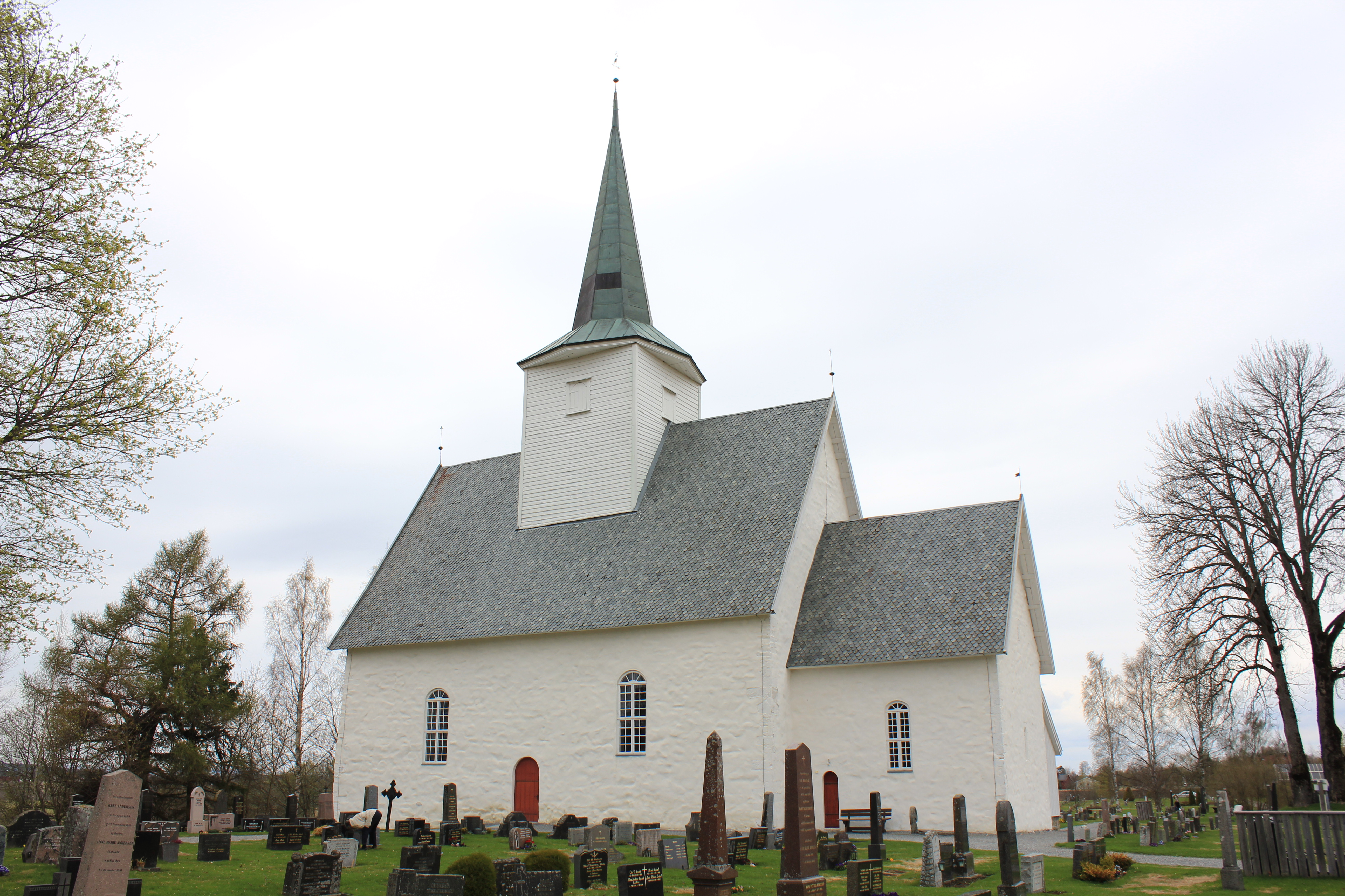 Sørum church, Akershus, Norway.